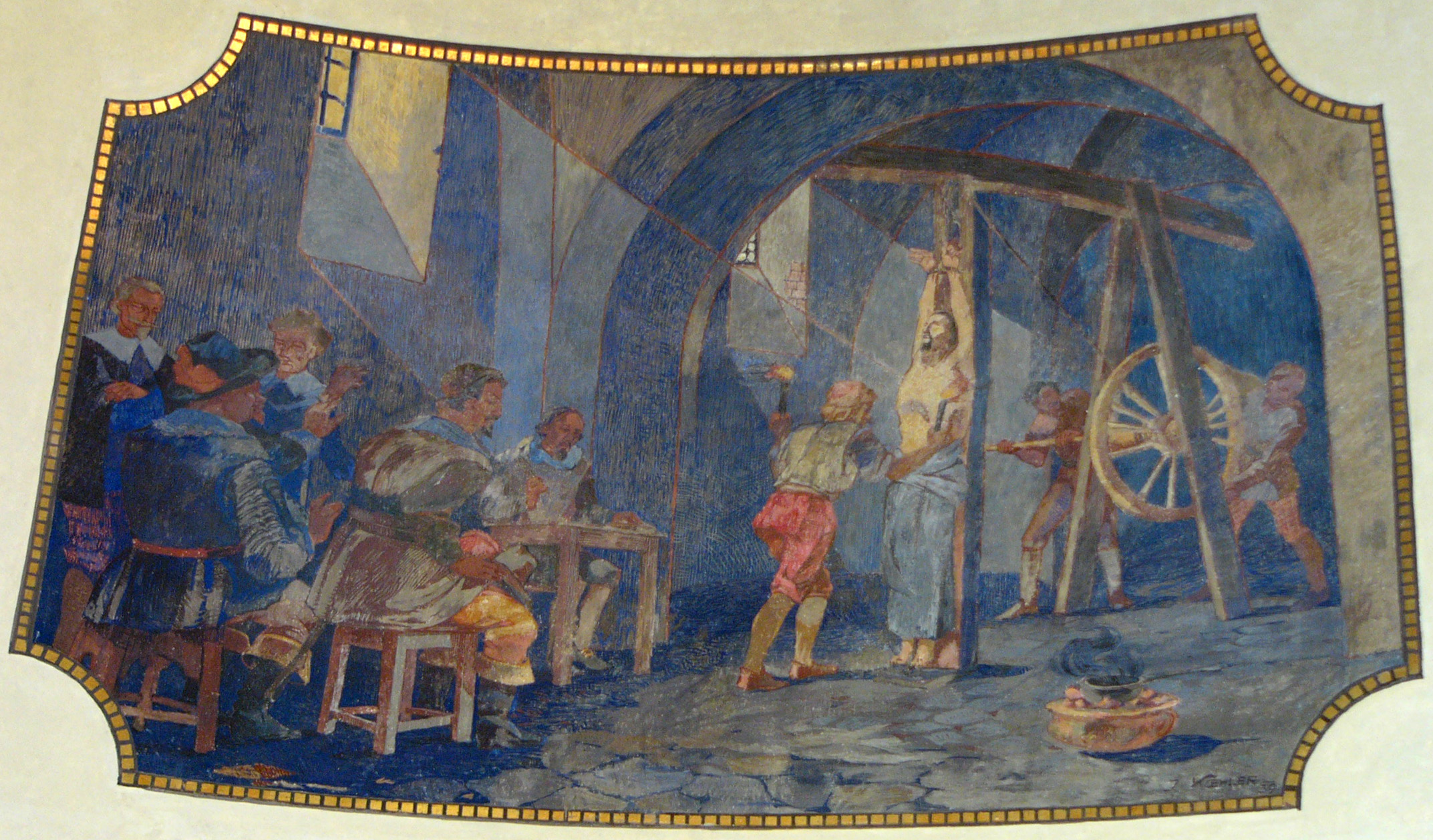 Fresco of torture of John Sarkander. Fresco by Jano Köhler is in St. Jan Sarkander chapel (Sarkandrova kaple) in Olomouc (Czech Republic).